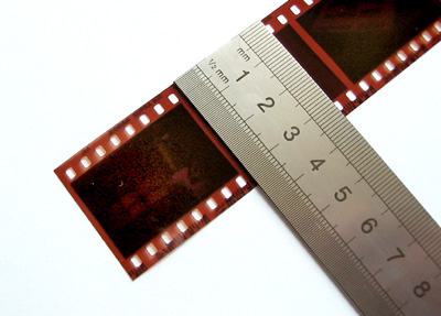 135 film, with a metric ruler for scale.